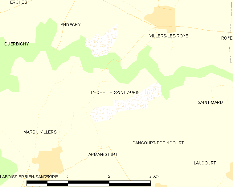 Map of French municipality L'Échelle-Saint-Aurin